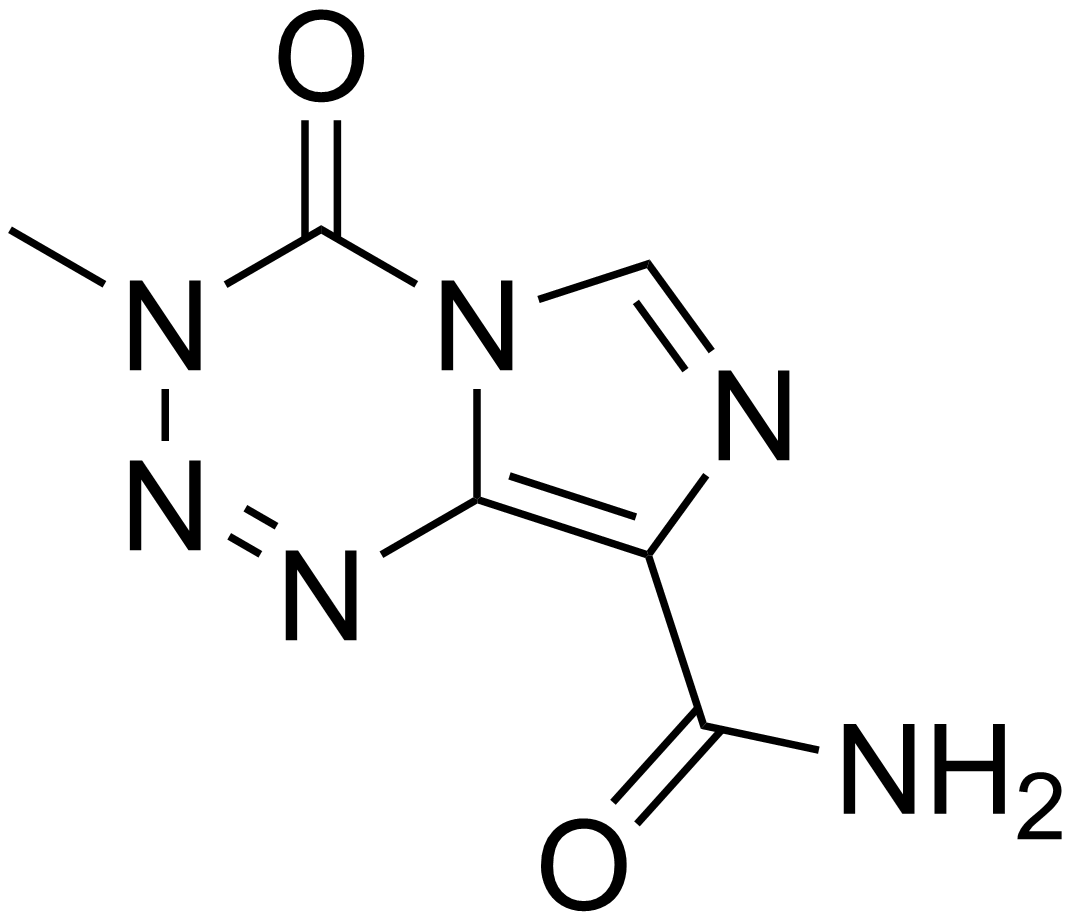 chemical structure of temozolomide